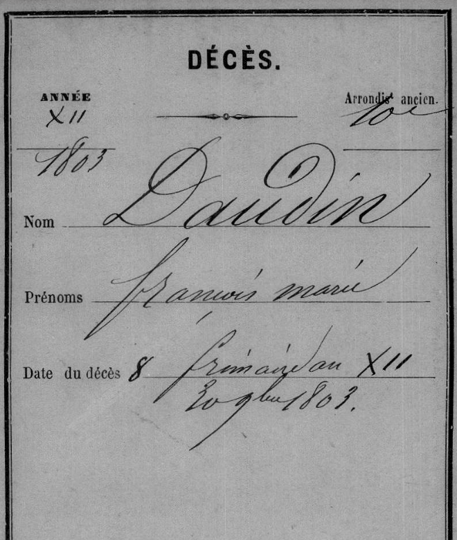 Death certificate François-Marie Daudin (1774-1803)